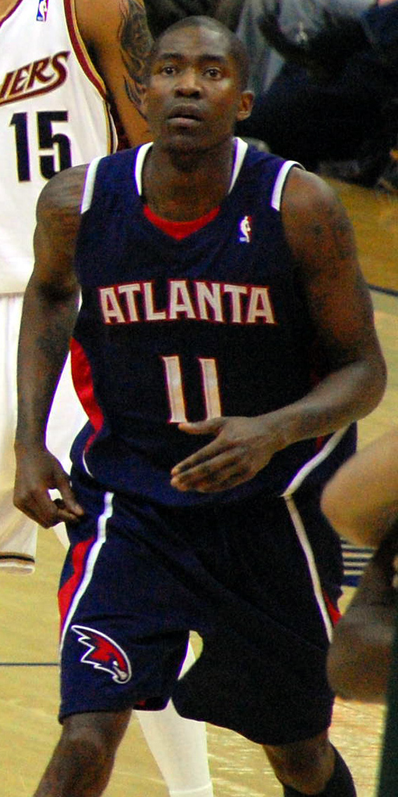 Jamal Crawford of the Atlanta Hawks This file has been extracted from another file: LeBron James watches free throw.jpg